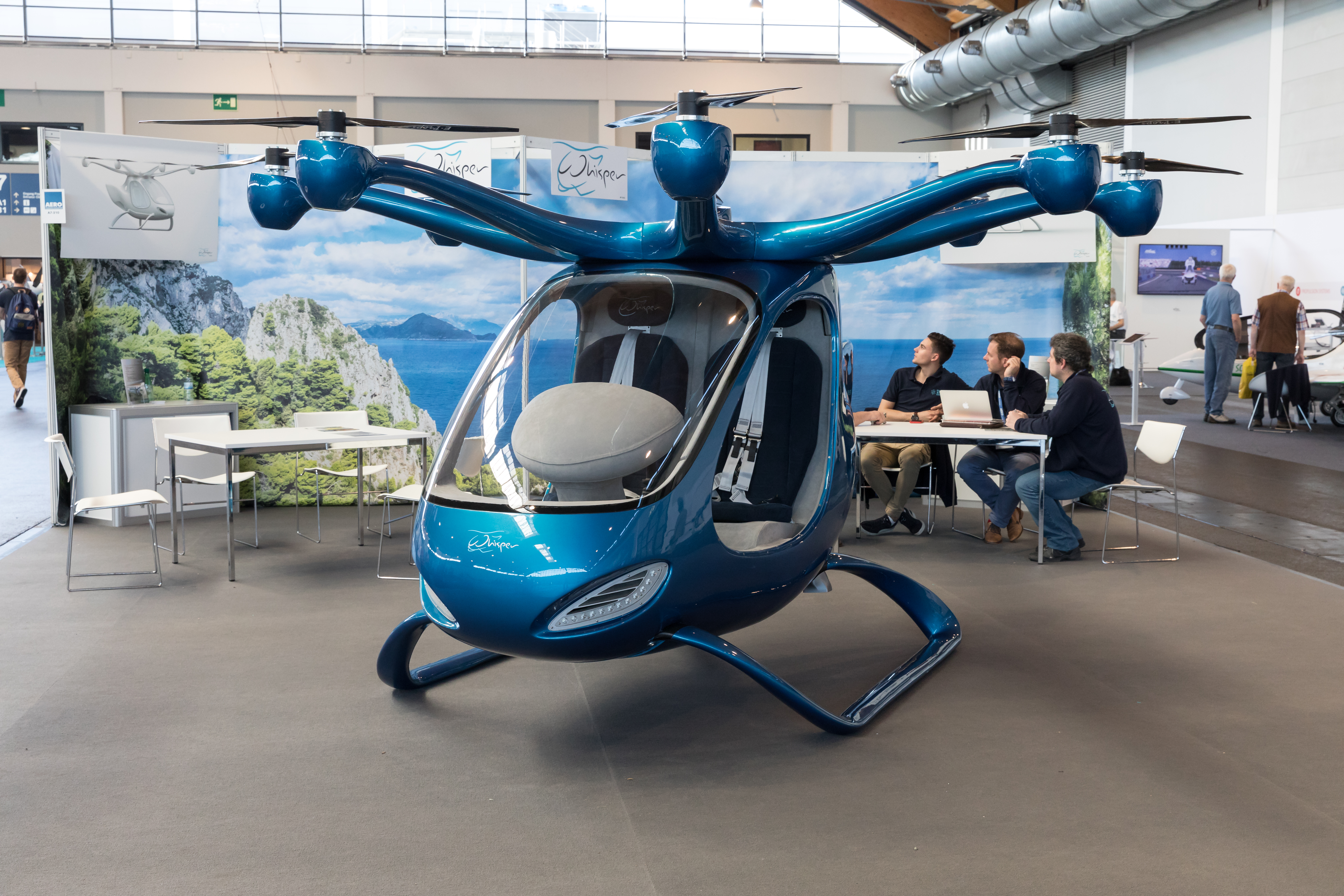 EAC-Whisper octocopter, AERO Friedrichshafen 2018